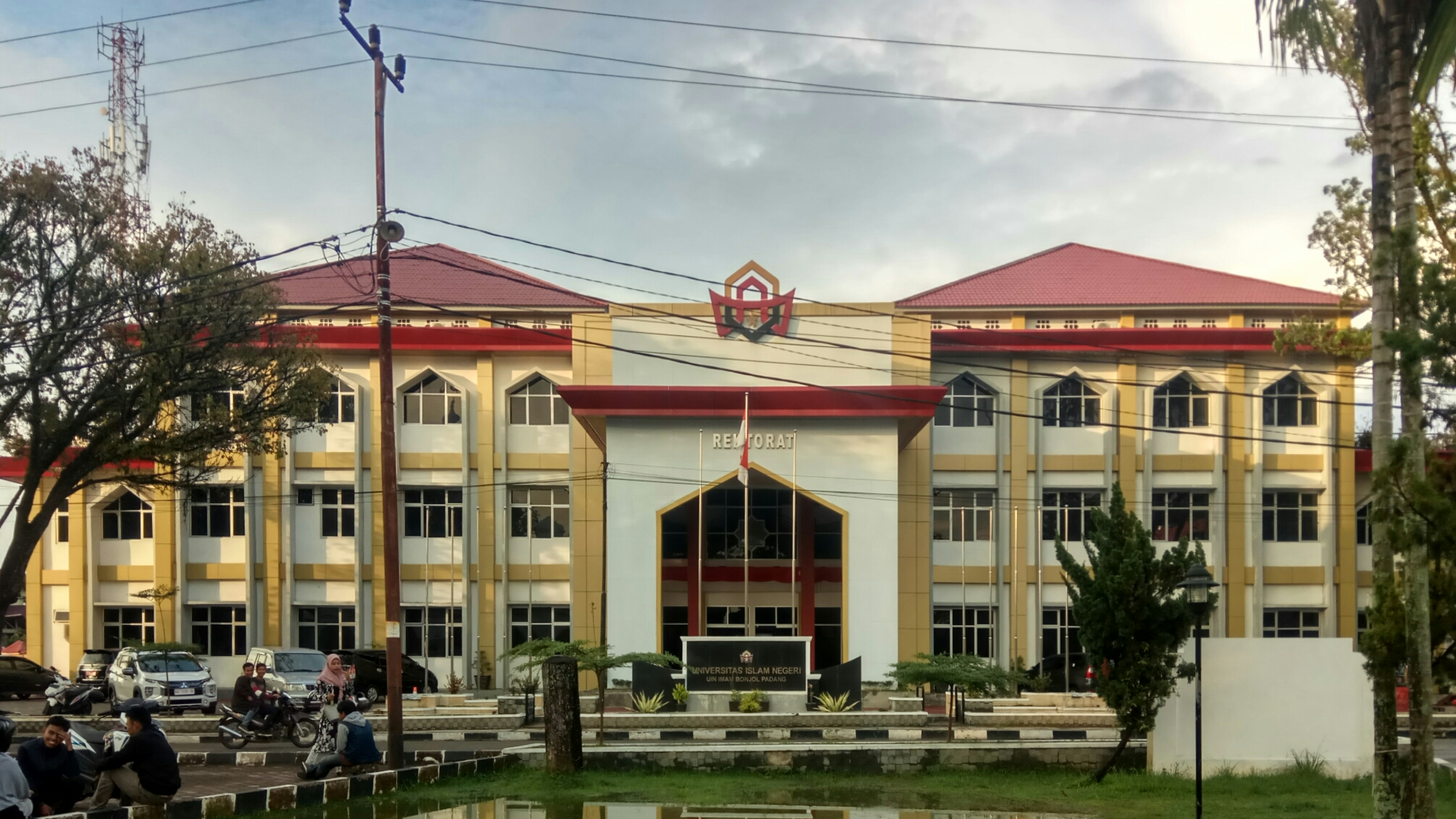 Rektorat UIN Imam Bonjol